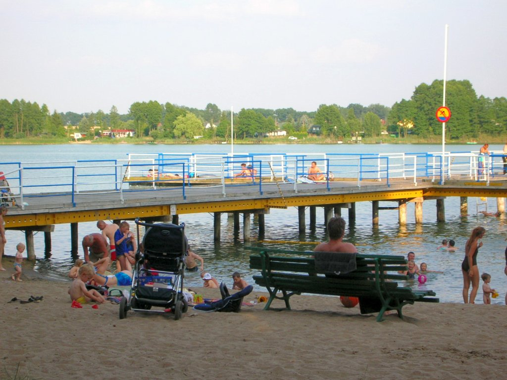 Borówno Lake